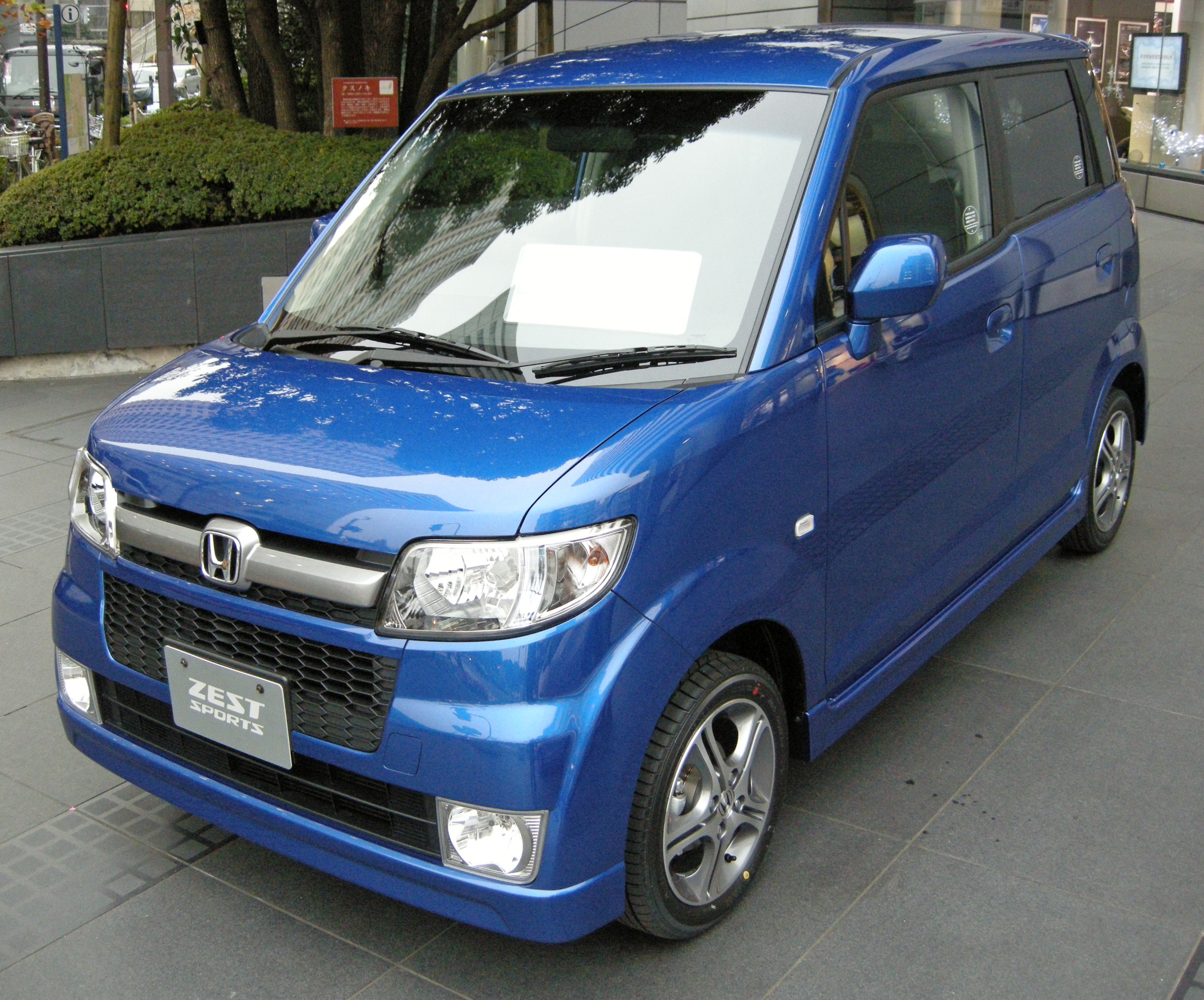 2007 Honda Zest Sports in Honda Welcome Plaza (Minato, Tokyo)